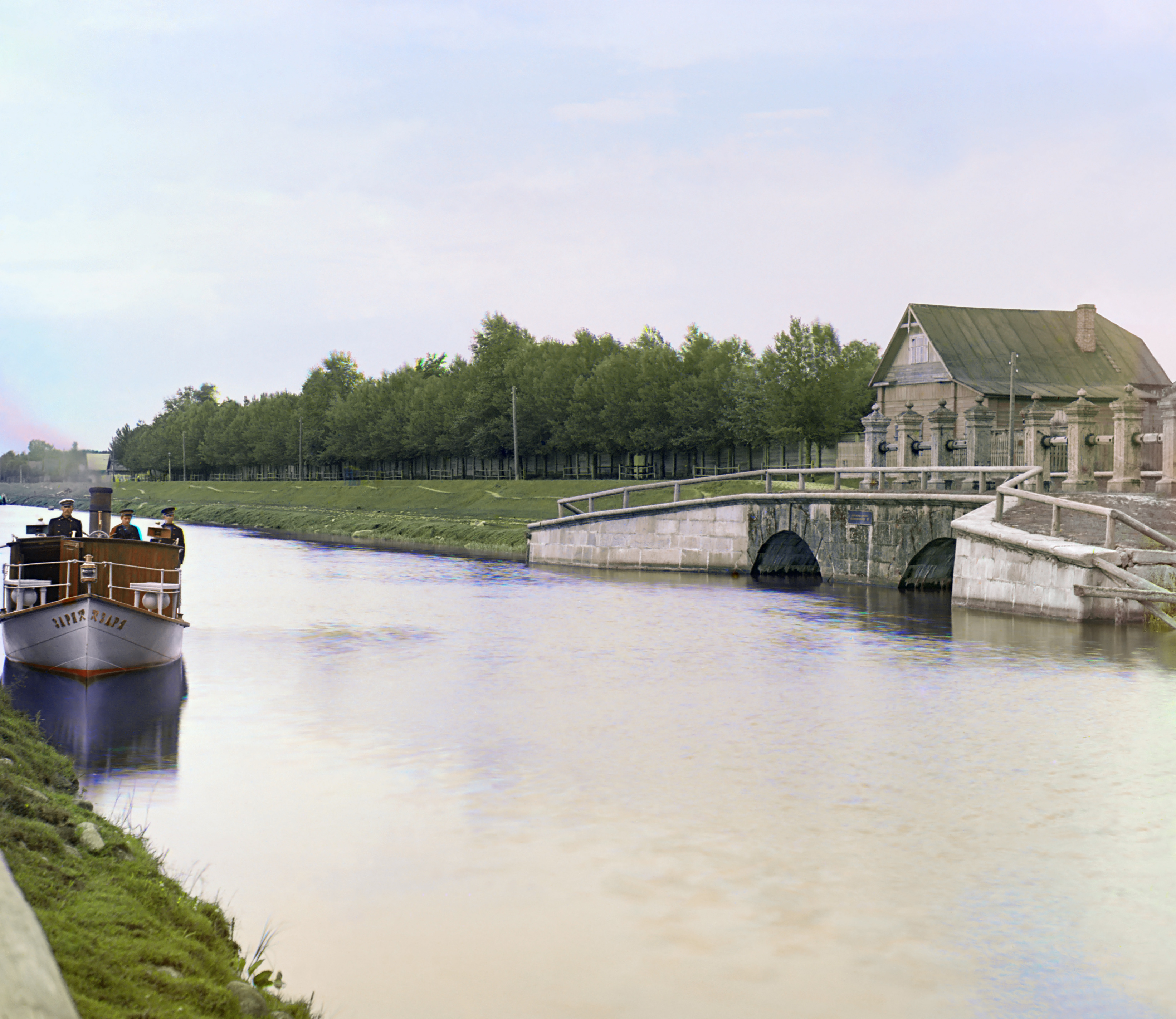 Original Description: Tow rope bridge in the village of Lava. [Russian Empire]. A stone bridge carries the canal path over two culverts to divert high water away from the main canal. The true location is Old Ladoga Canal near Shlisselburg